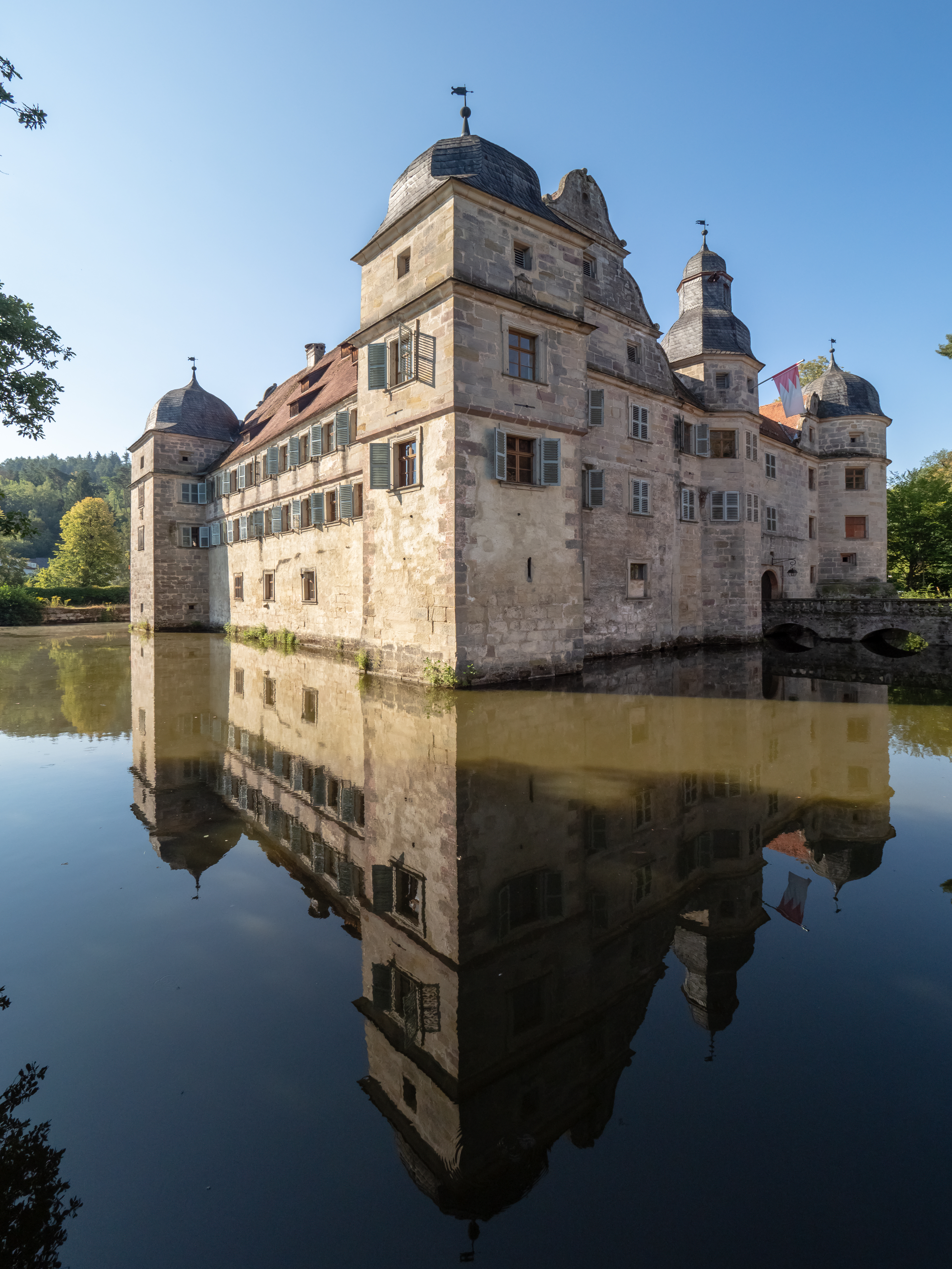 Mitwitz moated castle, north-west side.